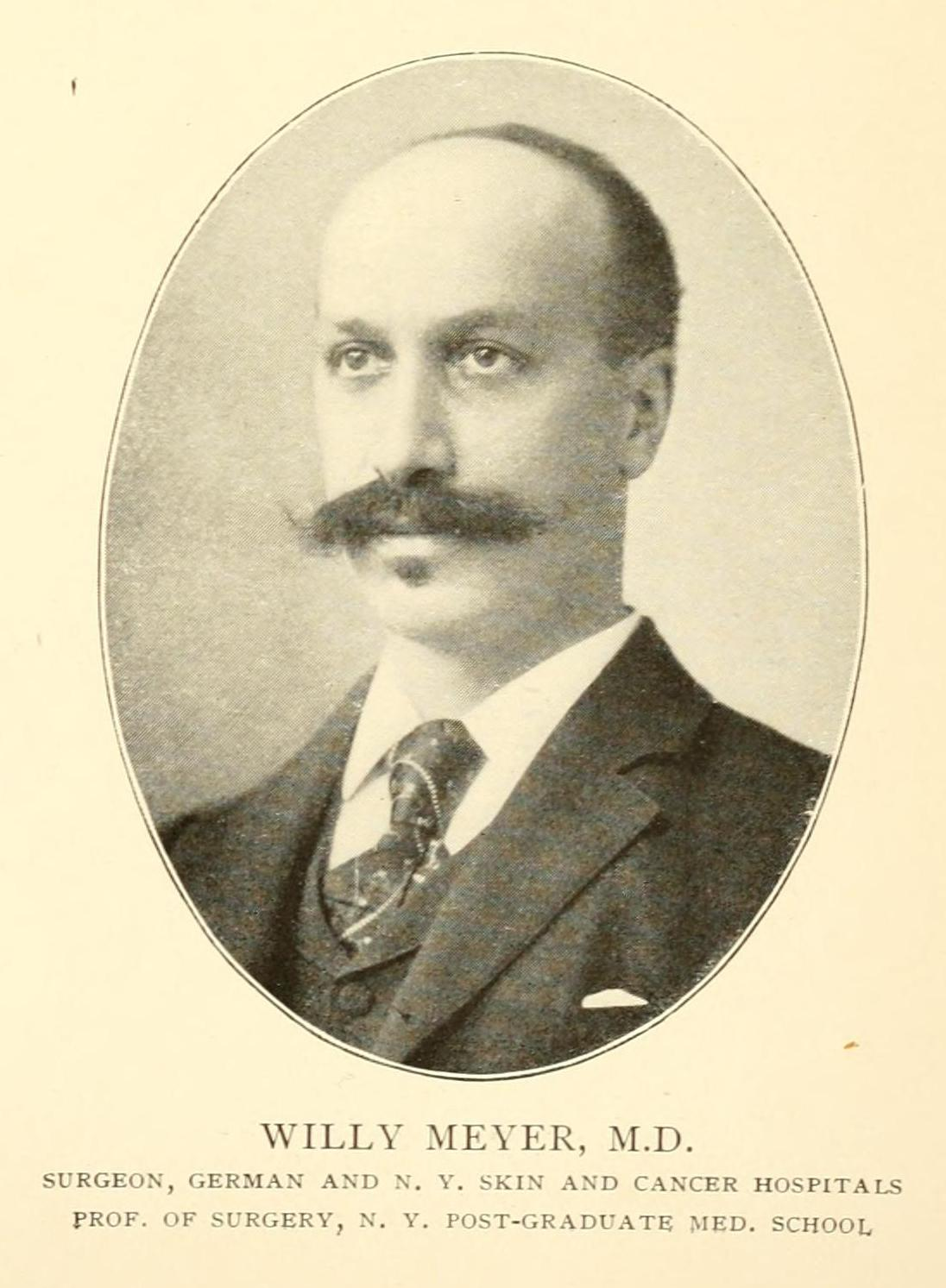 Willy Meyer